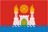 Makhachkala (Dagestan), flag